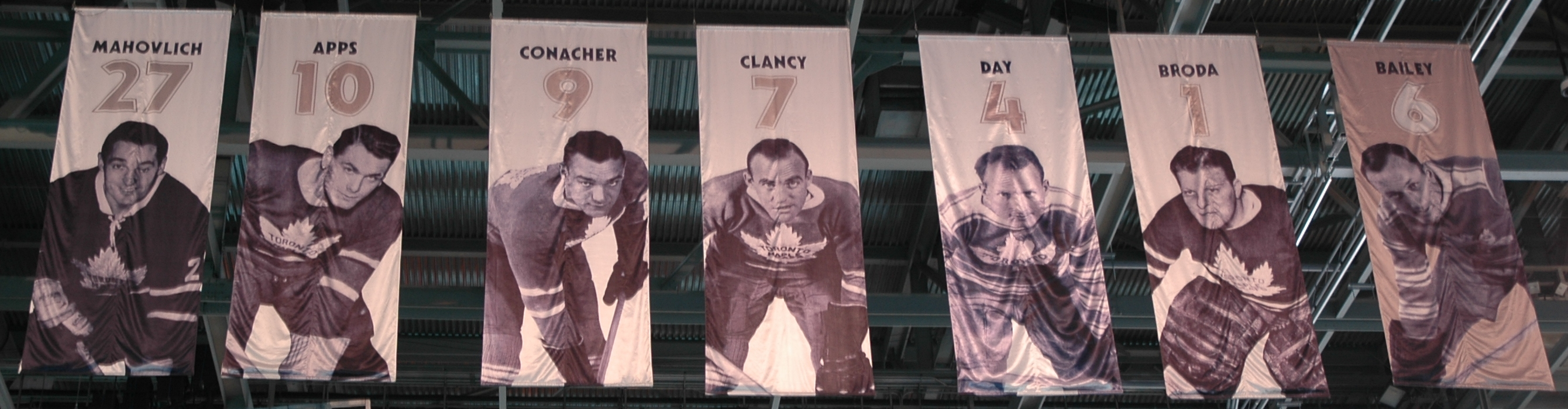 Toronto Maple Leafs Retiered and honored numbers banners in the Air Canada Center (Part1)